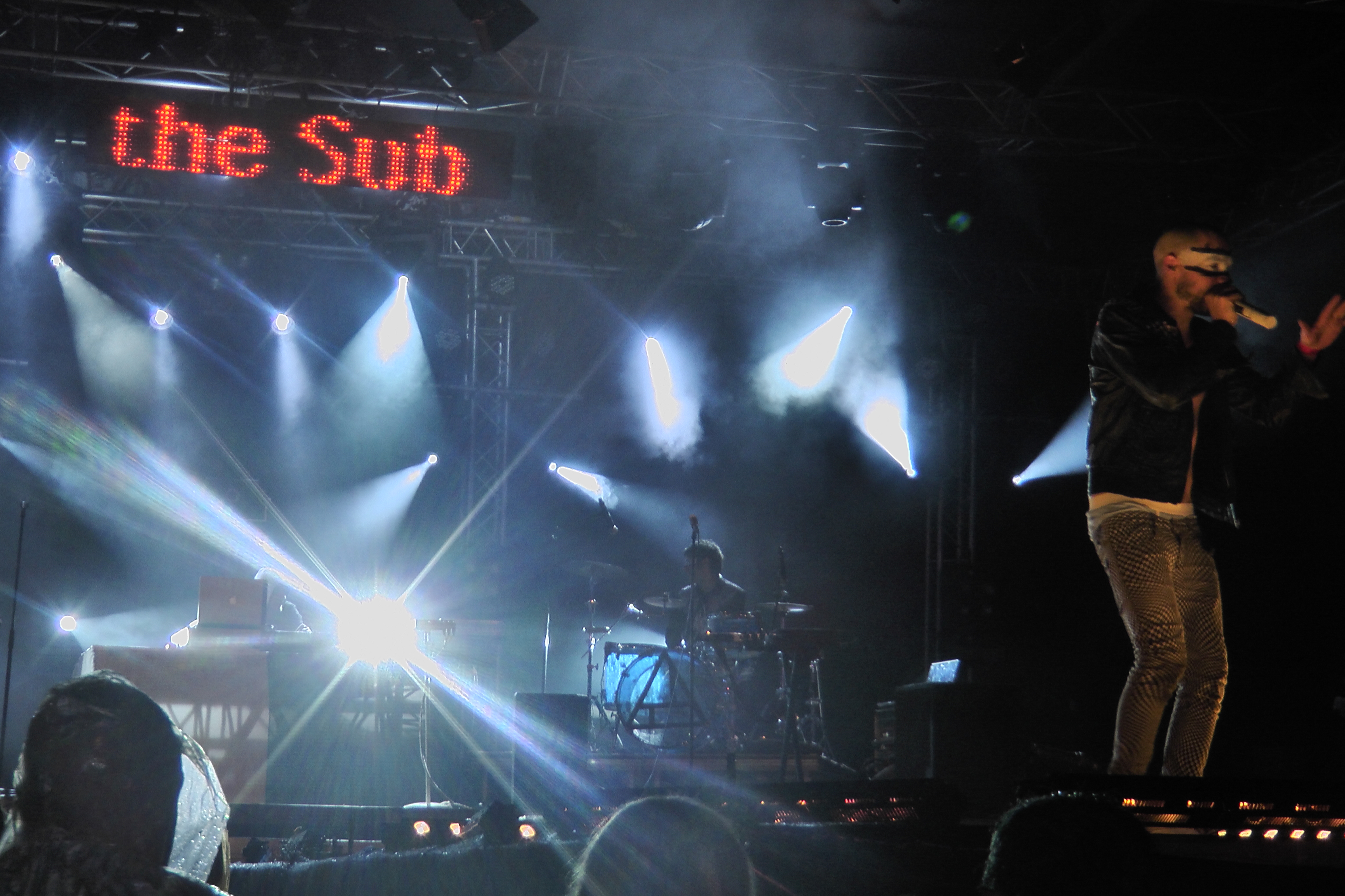 Belgian band The Subs performing at Westerpop pop festival in Delft, The Netherlands 2011.